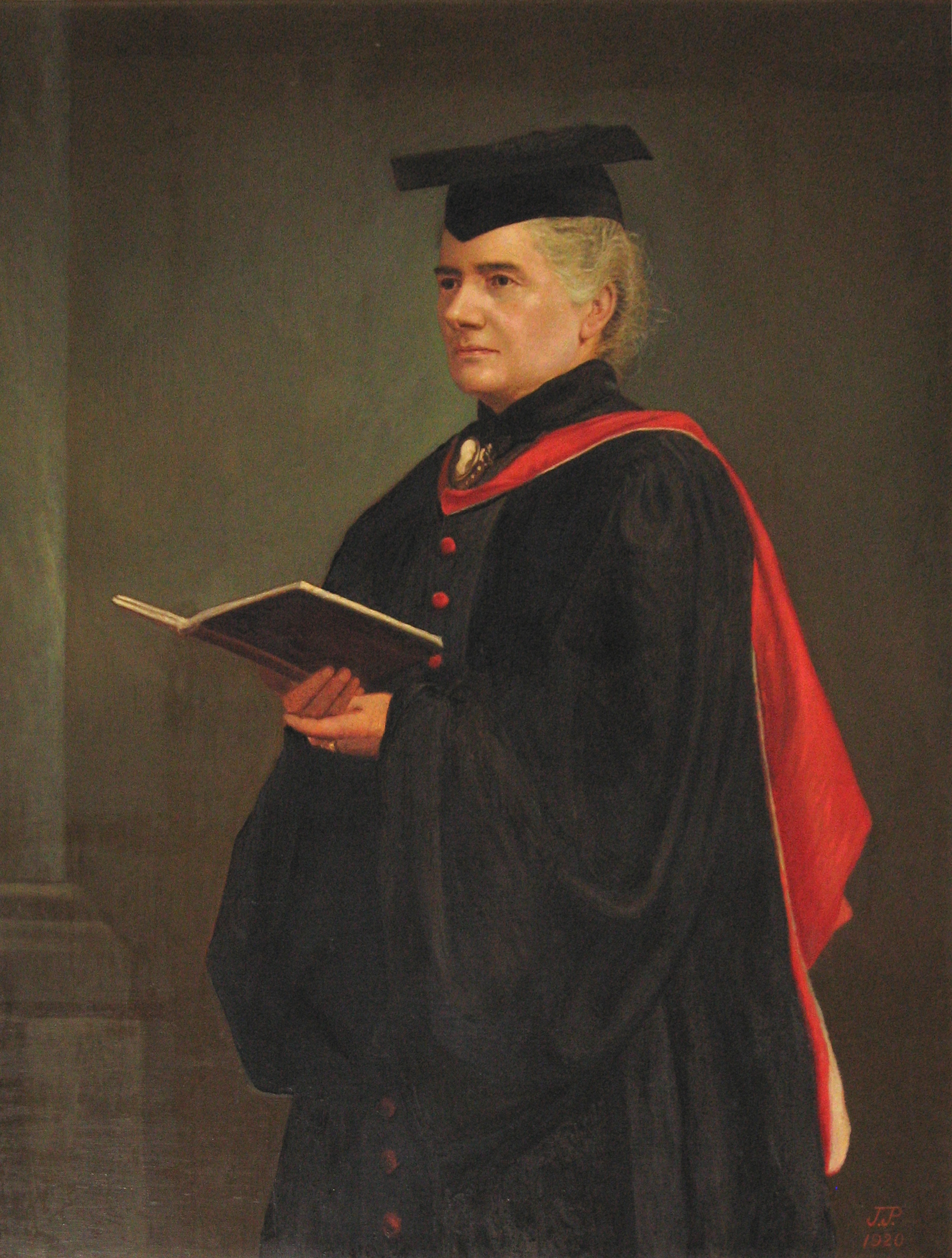 A portrait of Margaret Dunlop Gibson in the Westminster College, Cambridge. Signed: "JP 1920" = John Peddie (c.1857-1925).